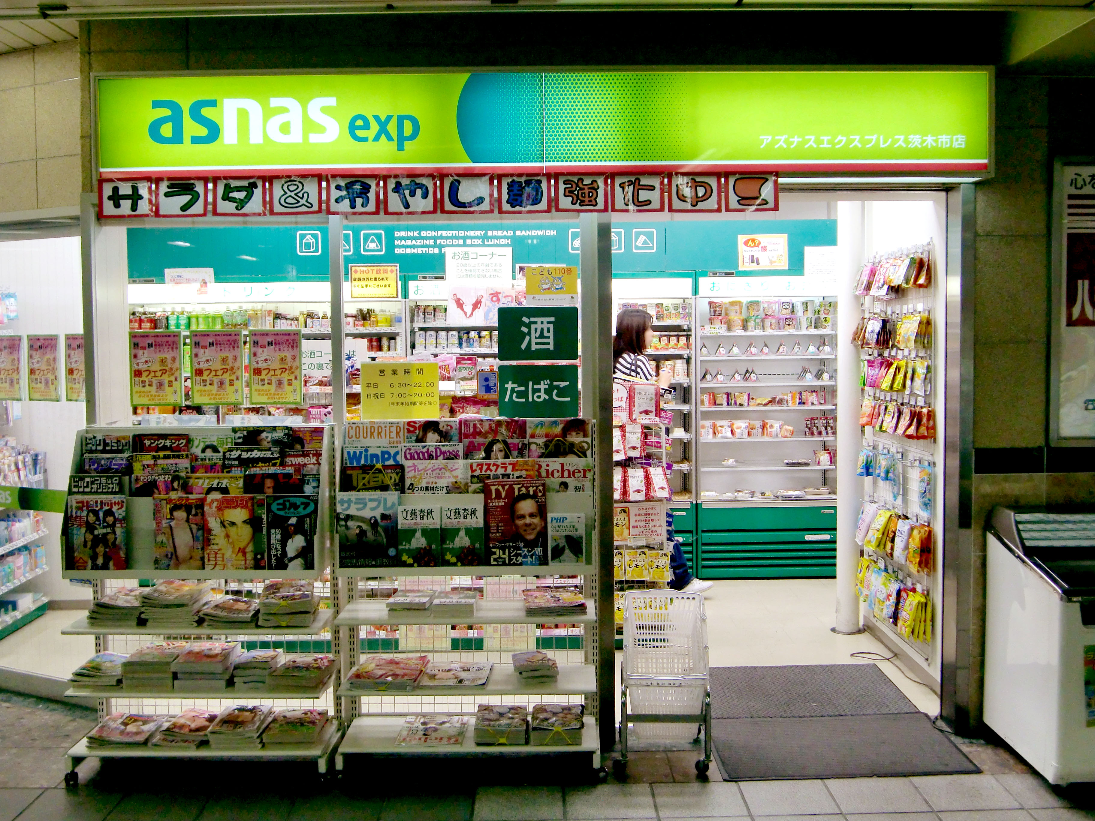 asnas express Ibaraki-shi,Eidai-Cho Ibaraki-City Osaka JAPAN.